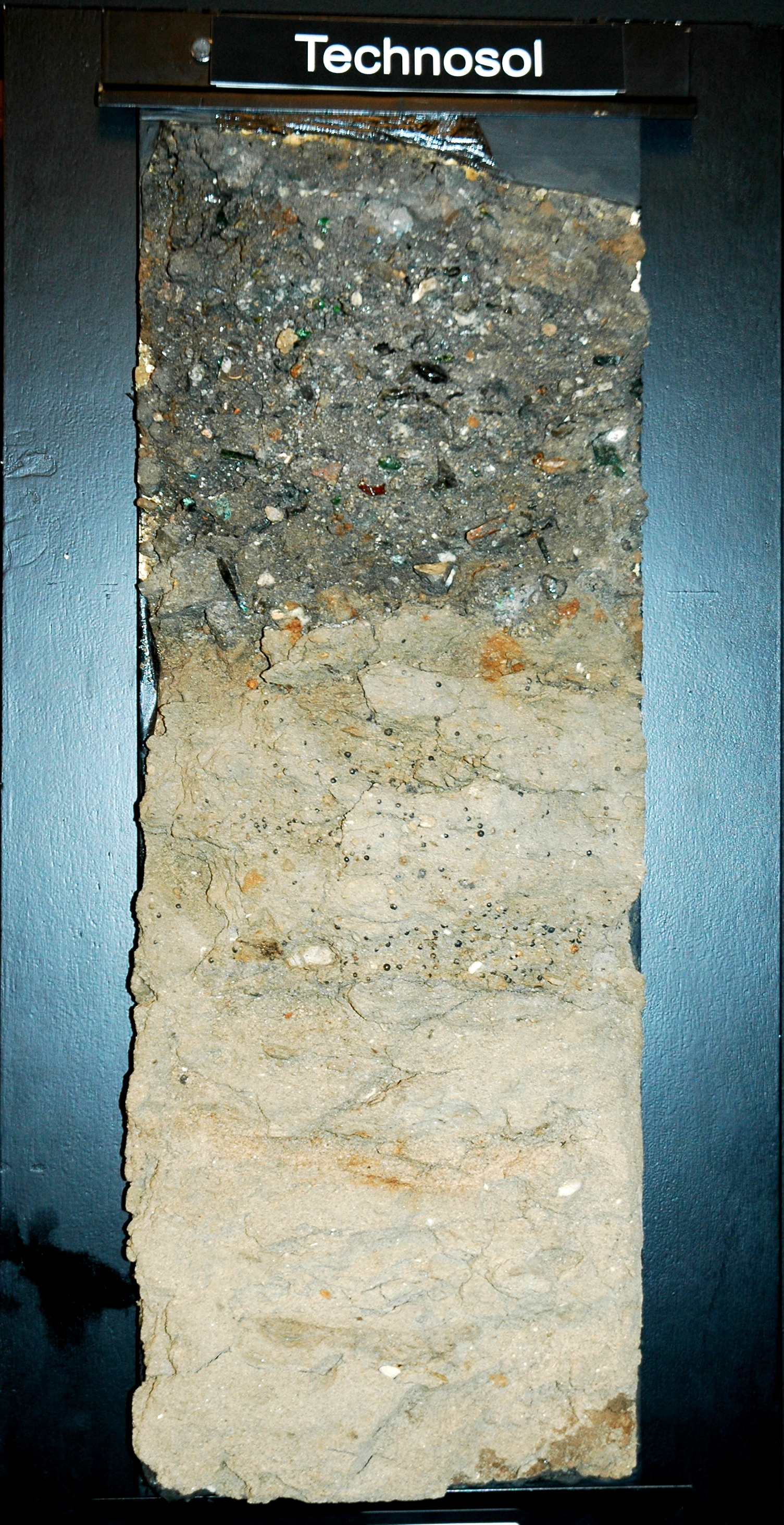 Soil profile of a Technosol